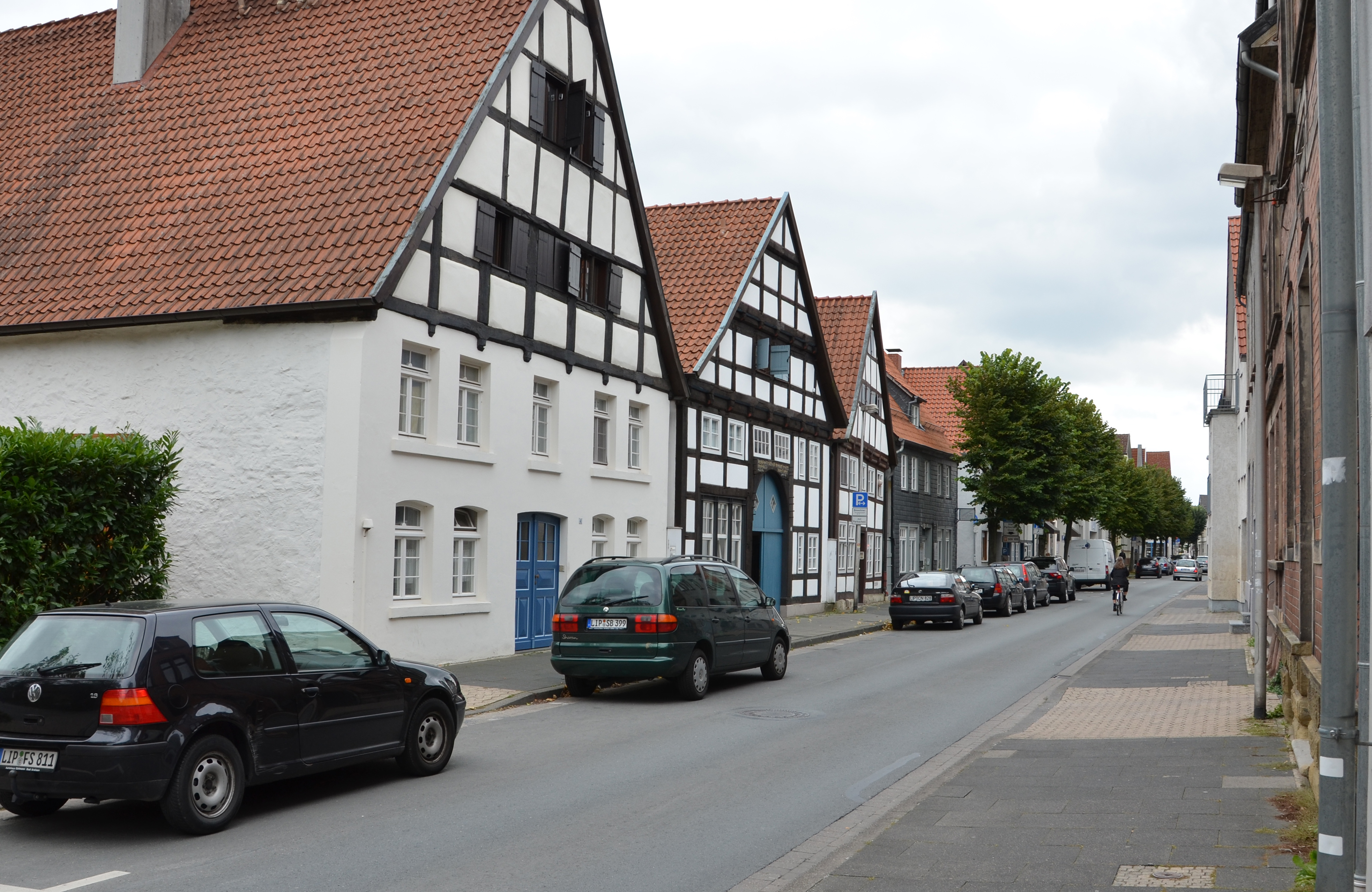 Lemgo